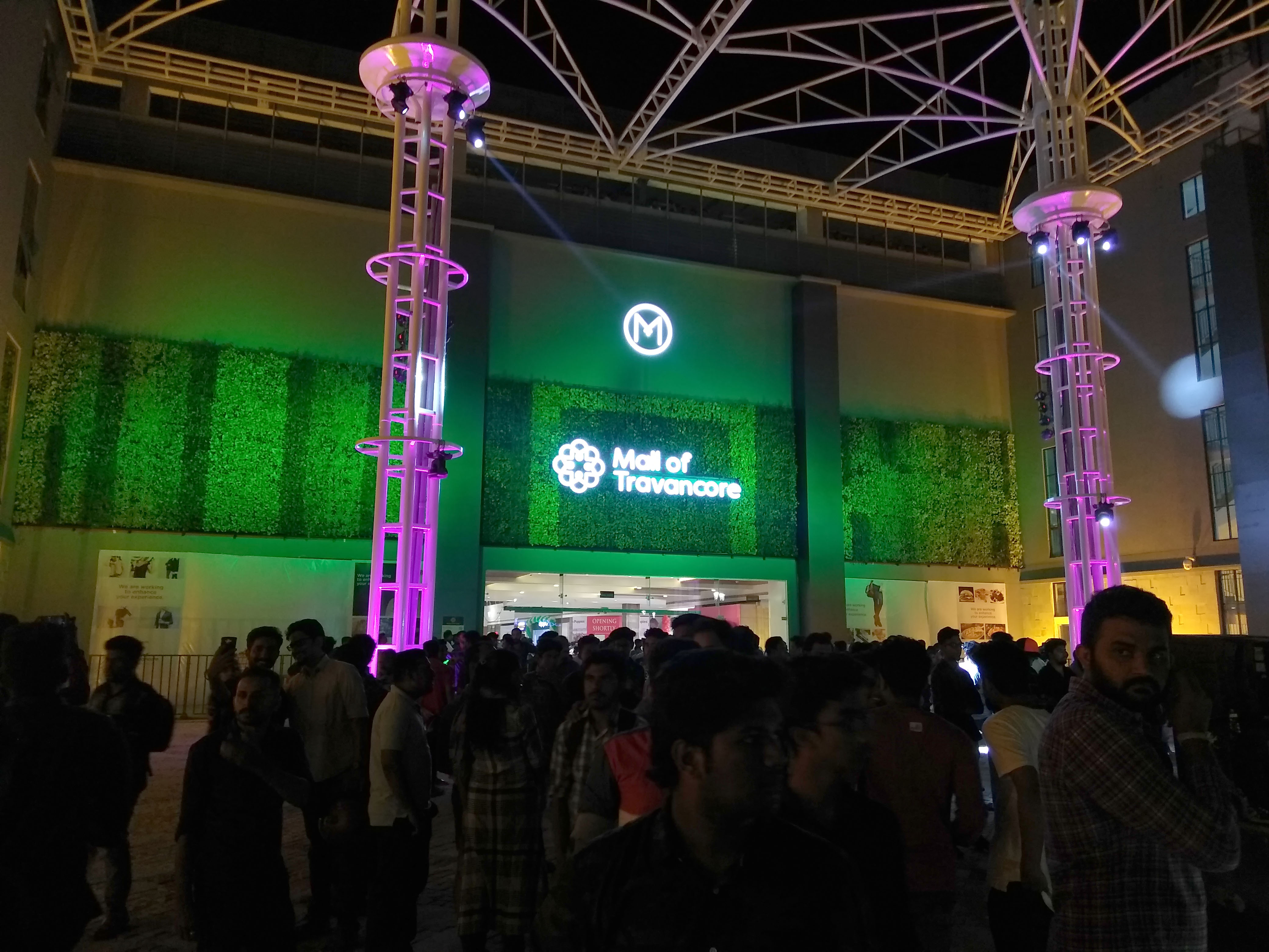 Mall of Travancore in Thiruvananthapuram city, Kerala, India.